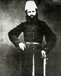 Bulgarian writer and revolutionary Liuben Karavelov (1834 - 1879)